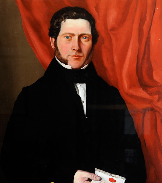 Oil painting; Captain William Le Lacheur, artist unknown. Guernsey Museum Object No. GML 1988.1. Artwork photographed for a Public Catalogue Foundation catalogue of paintings in the Channel Islands